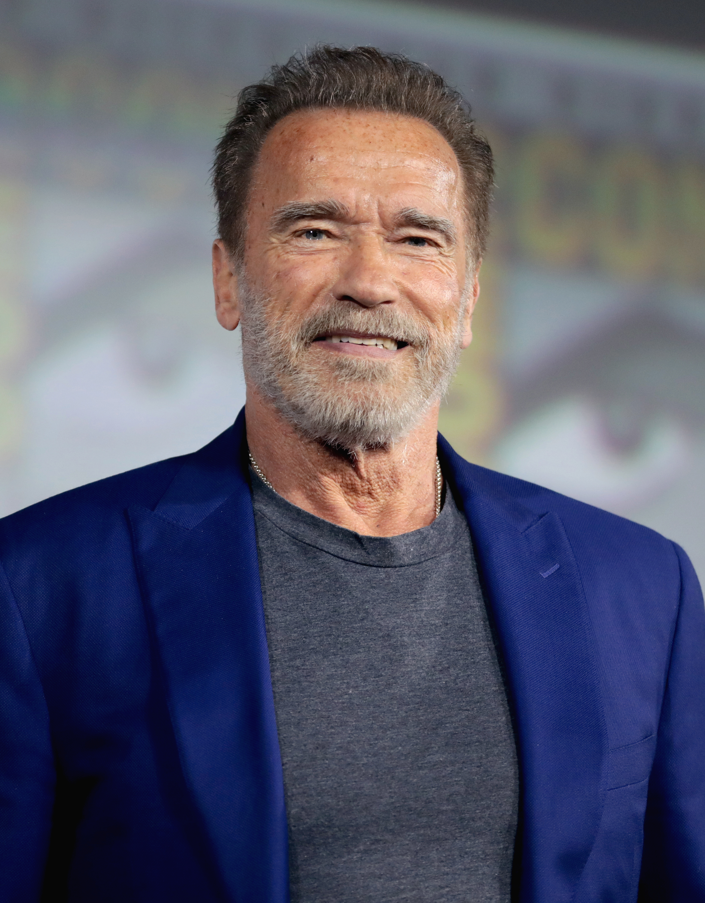 Arnold Schwarzenegger speaking at the 2019 San Diego Comic-Con International in San Diego, California.